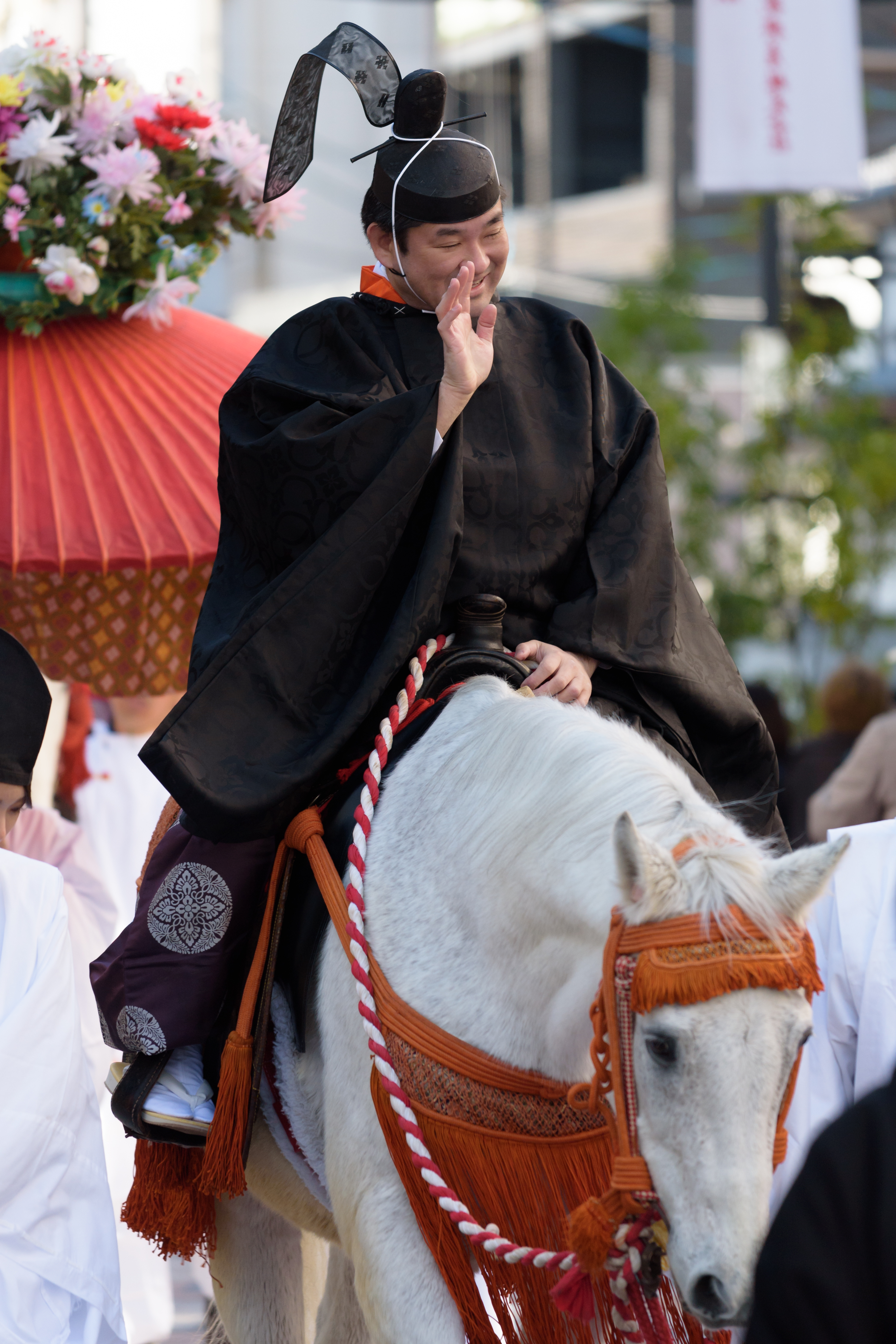 Motonobu Gen Nakagawa, Mayor of Nara, at Kasuga Wakamiya On-Matsuri Festival at Sanjo Street, Nara